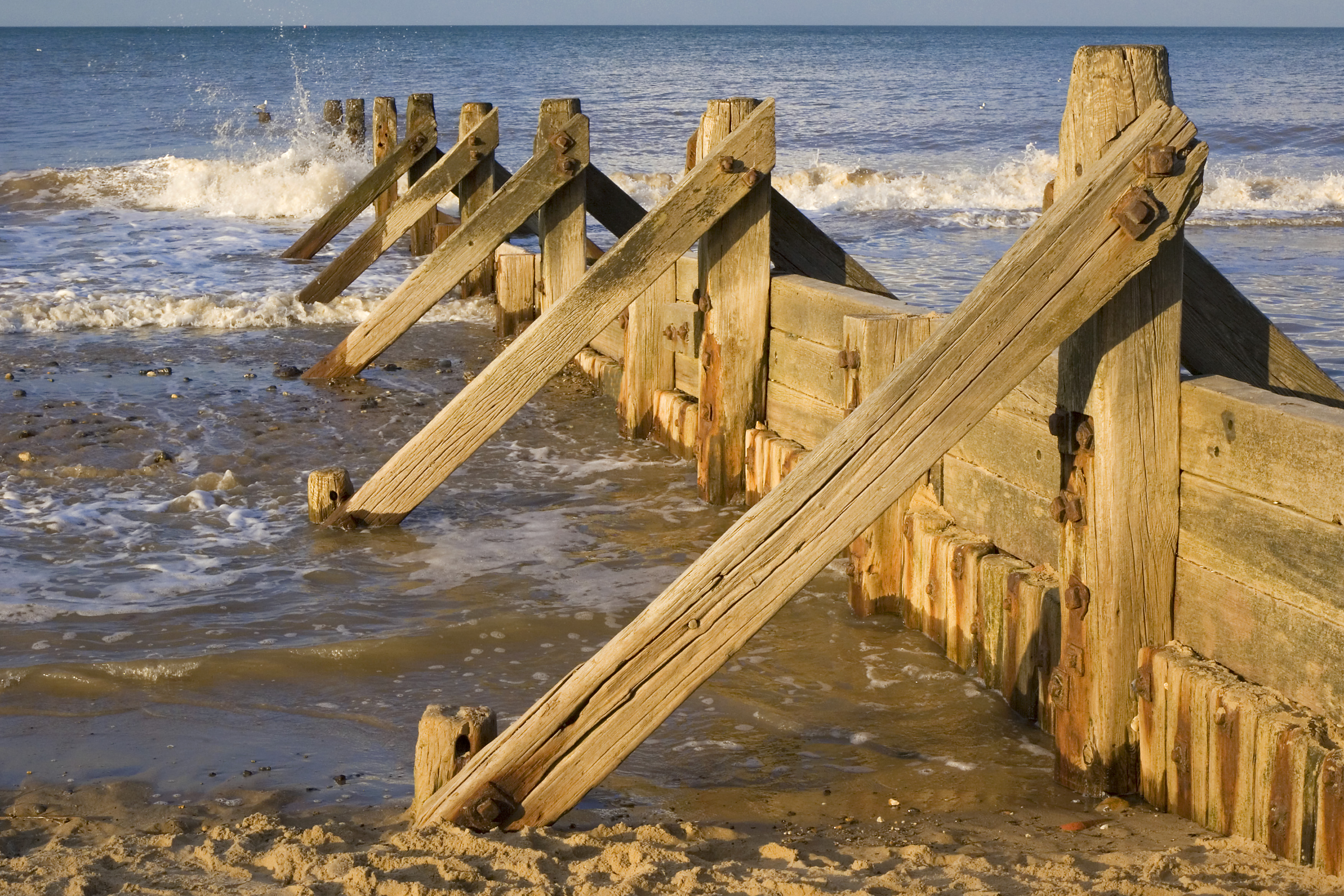 Groyne at Mundesley, Nofolk